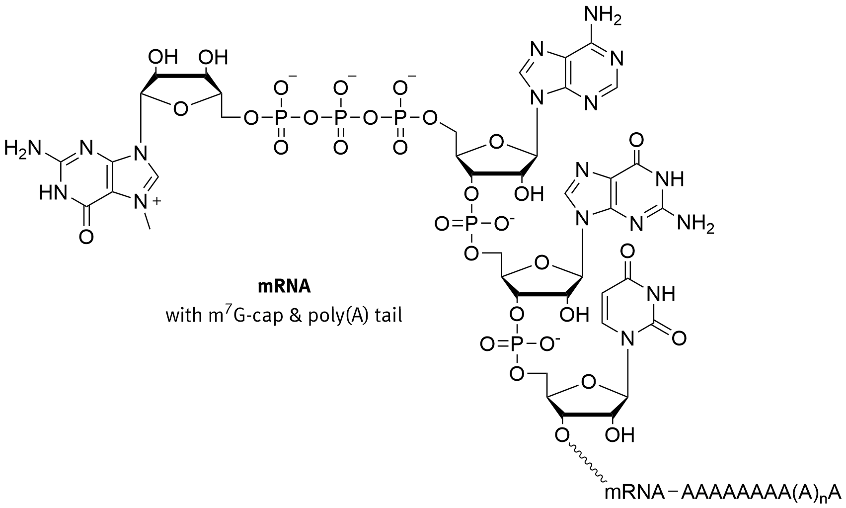 mRNA with 5' cap and poly(A) tail.